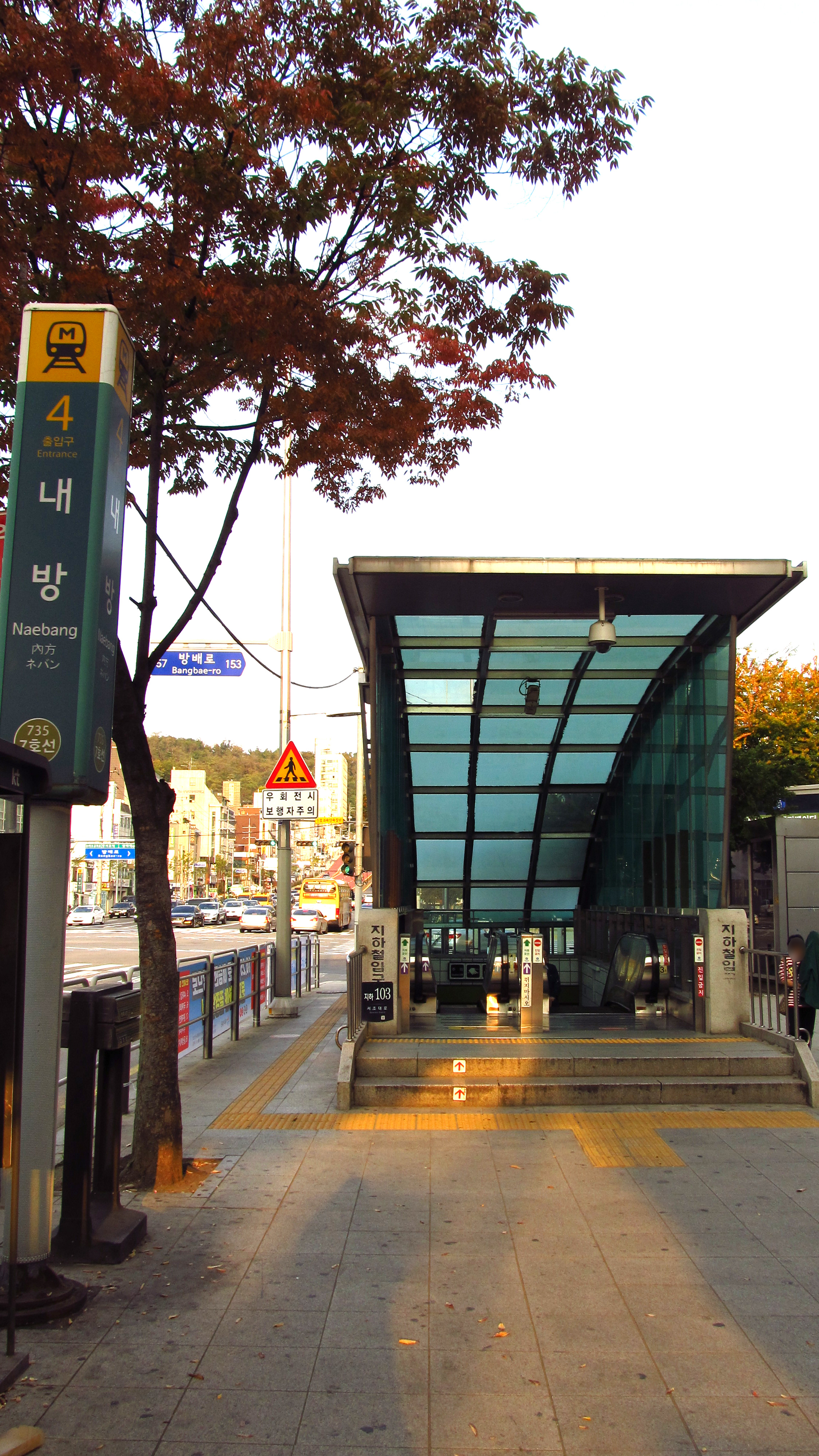 The no.4 entrance to Naebang Station on the Seoul Metro Line 7 in Seocho-gu, Seoul, Republic of Korea(South Korea)